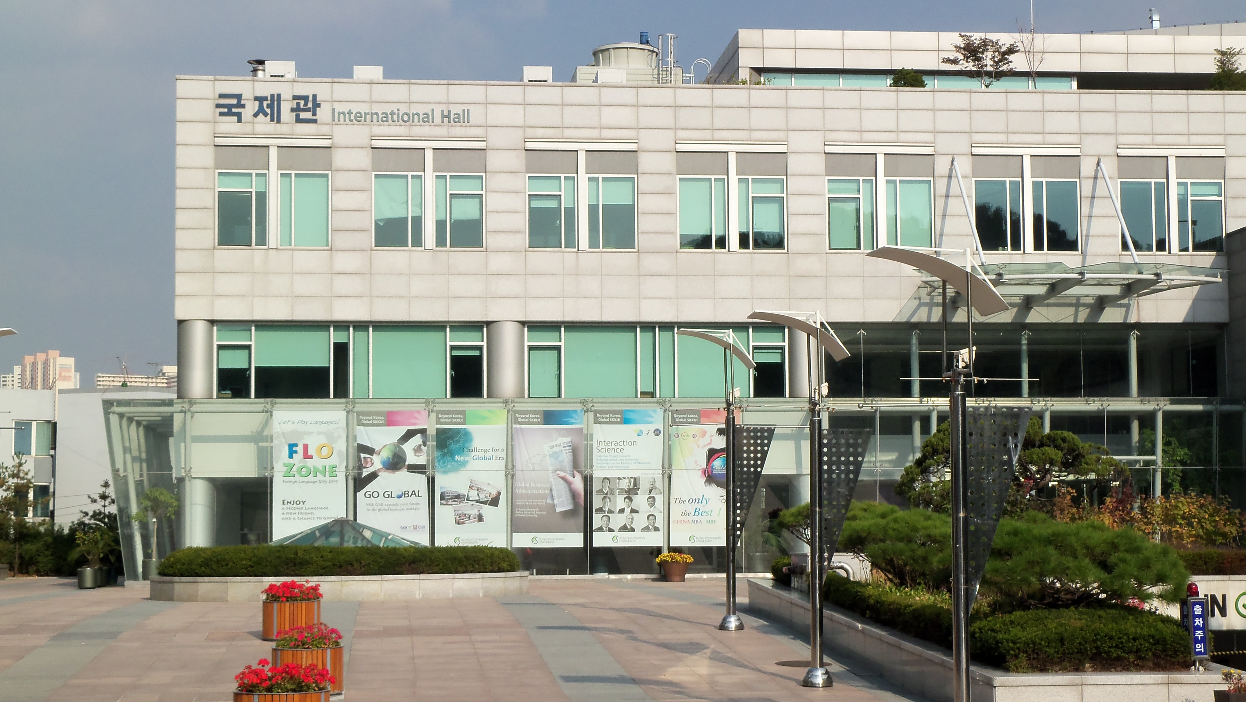 International Hall at Sungkyunkwan University.